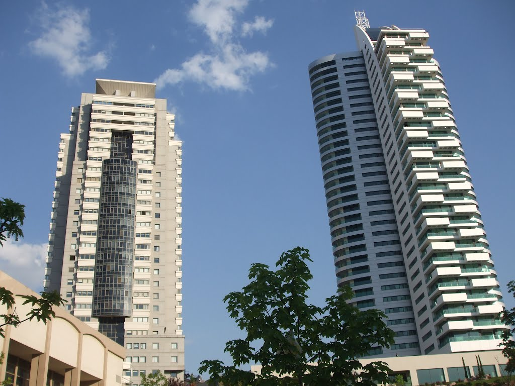 Portakal Çiçeği Kuleleri (2013) Ankara